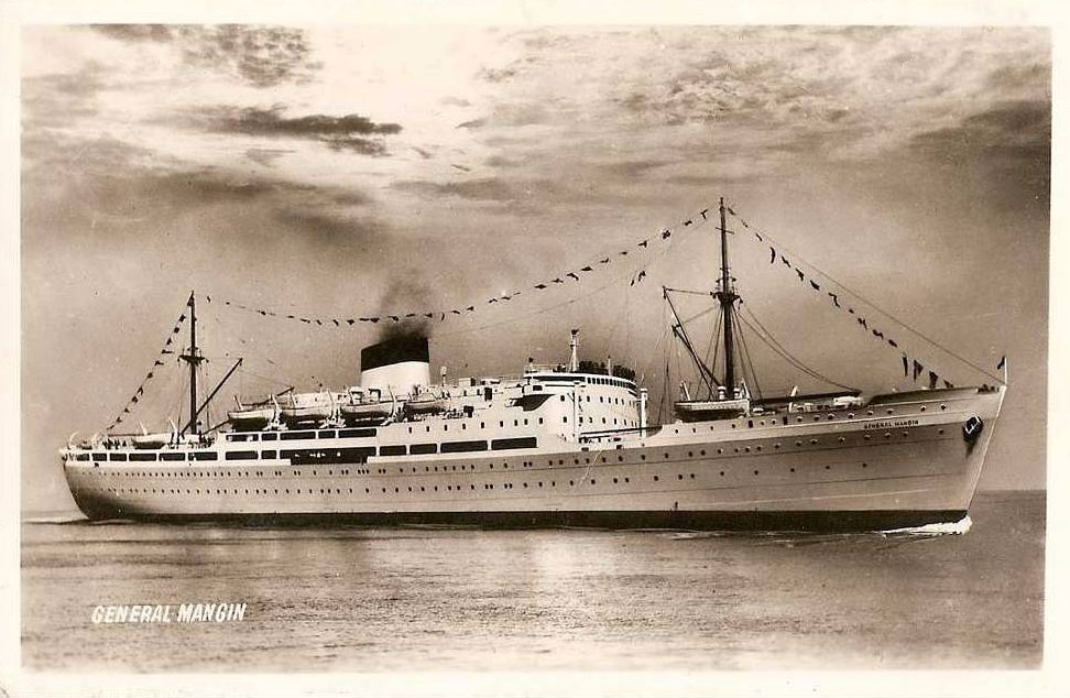 11,684 GRT Passenger ship Général Mangin, built for Compagnie de Navigation Fraissinet in 1953.